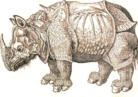 illustration of Rhinoecrote